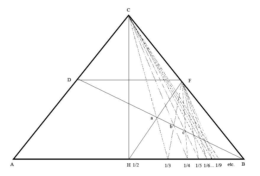 Geometric method that applies the theory of Pythagorean proportions to divide a segment in exact proportional parts.